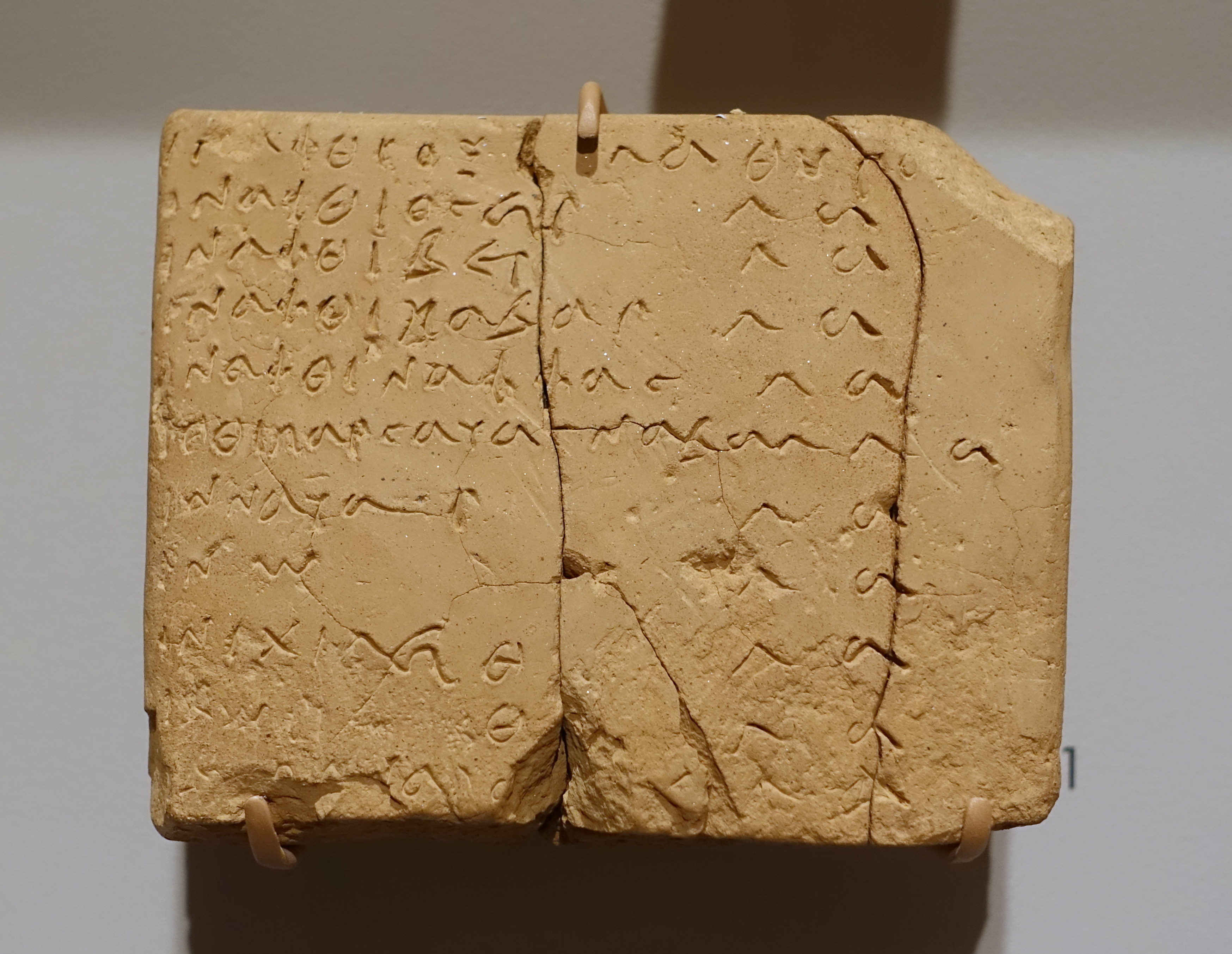 Exhibit in the Harvard Semitic Museum, Harvard University - Cambridge, Massachusetts, USA. This work is old enough so that it is in the public domain.